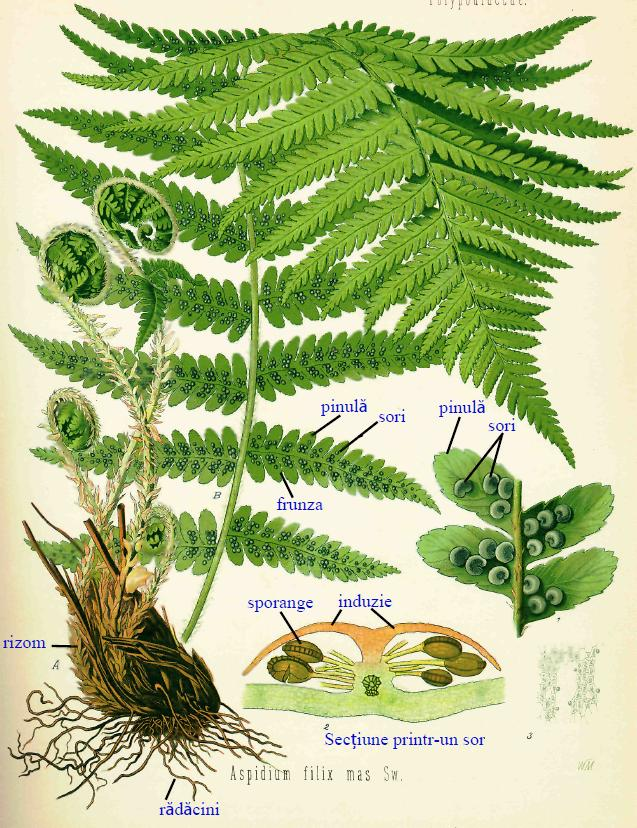 Dryopteris filix-mas